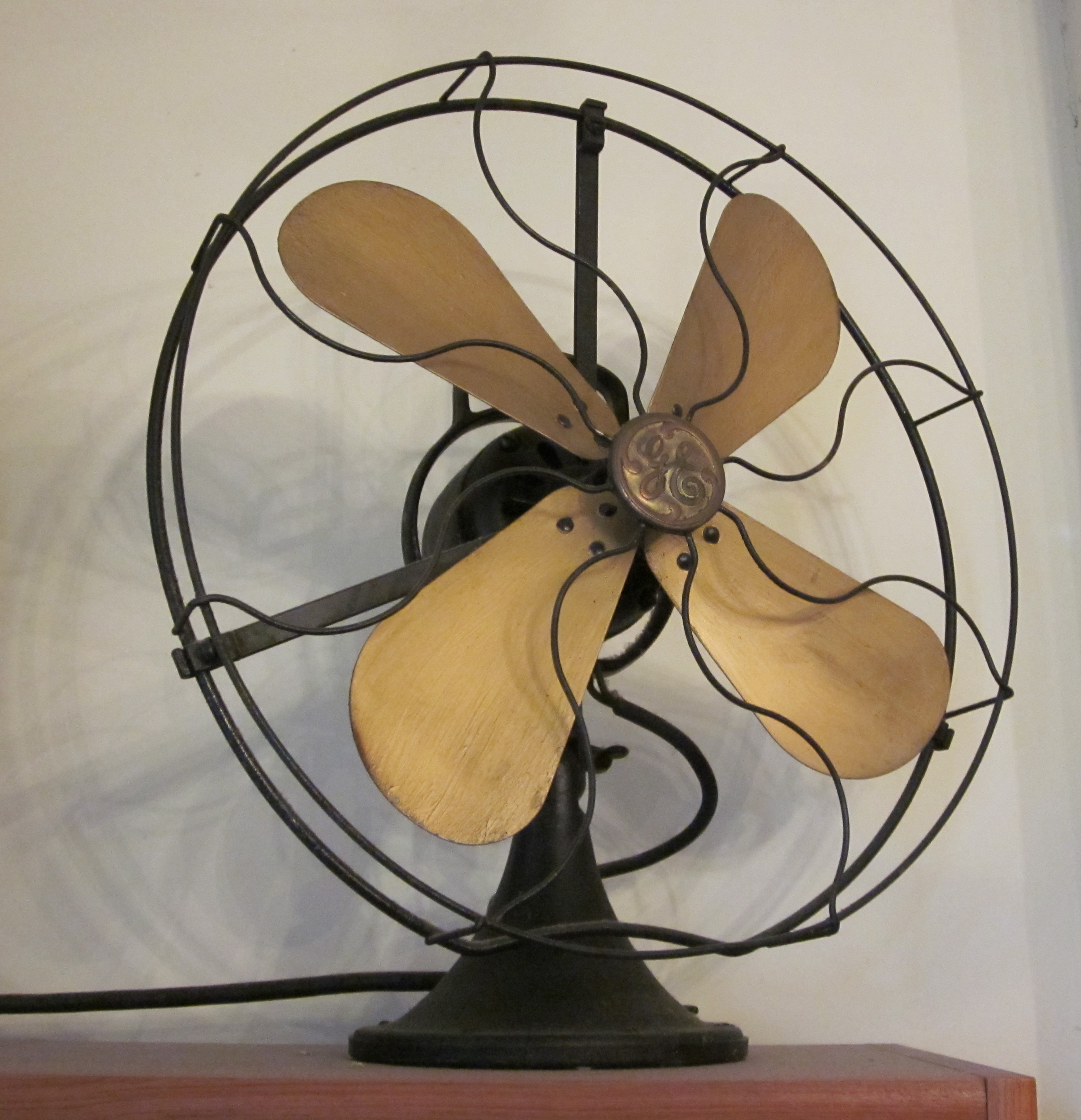 GE electric fan from early 20th century.